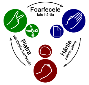 Rock-paper-scissors description